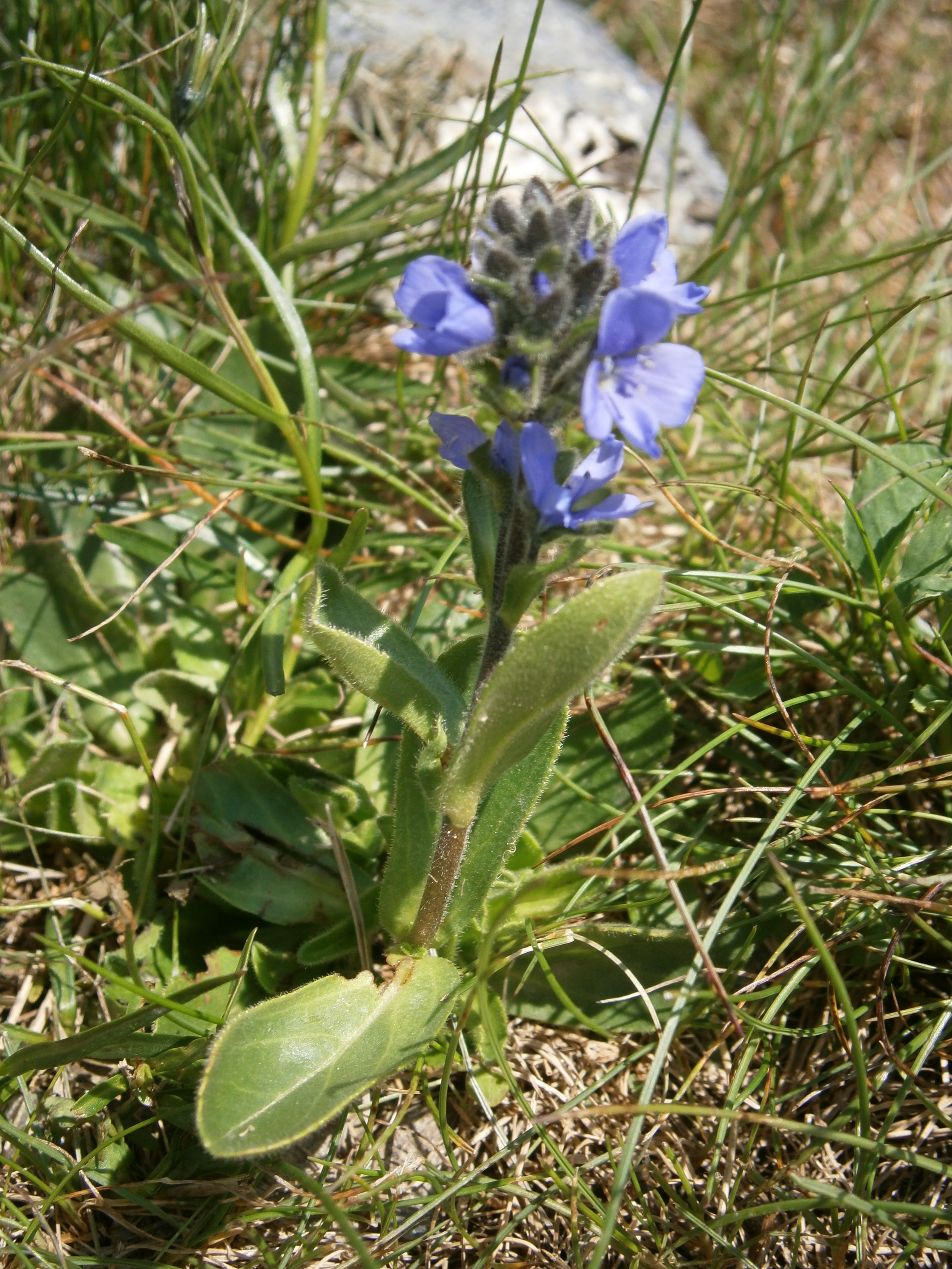 Veronica bellidioides